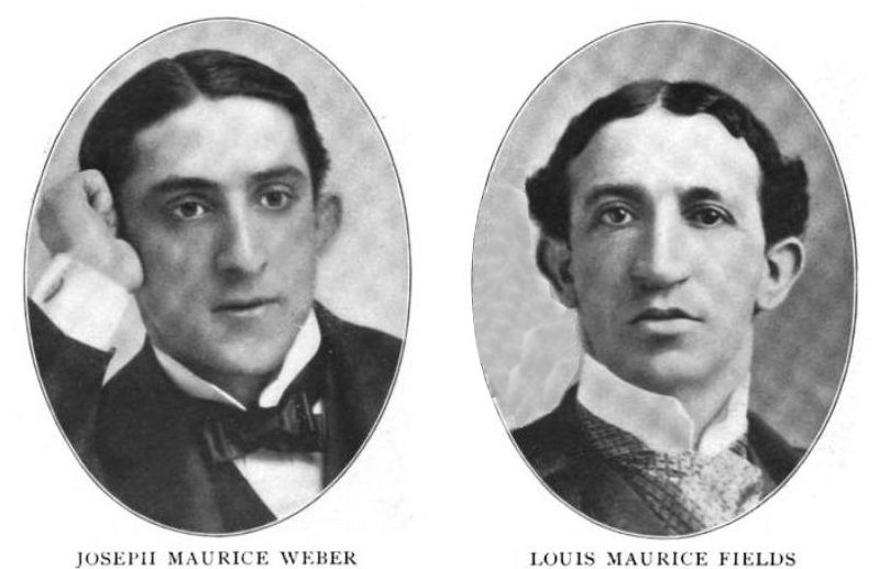 partners Joseph Maurice Weber and Louis Maurice Fields, actors in 1899.